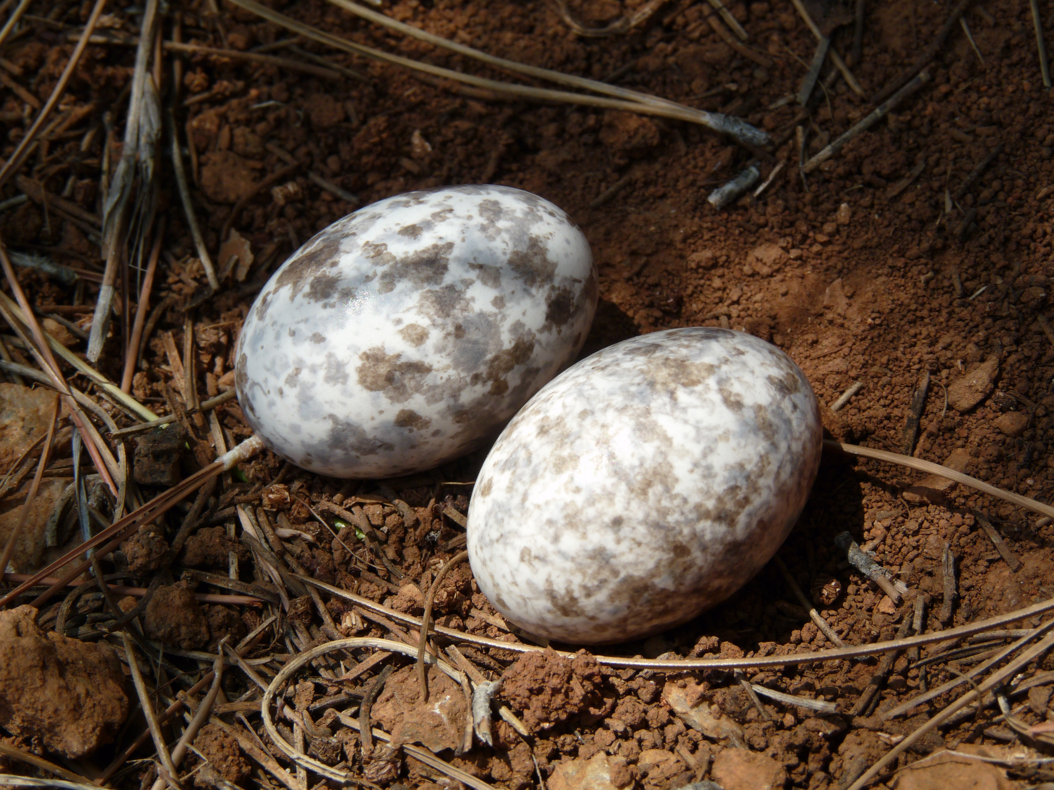 Two European Nightjar eggs in a nest in Beldibi, Mugla, Turkey.